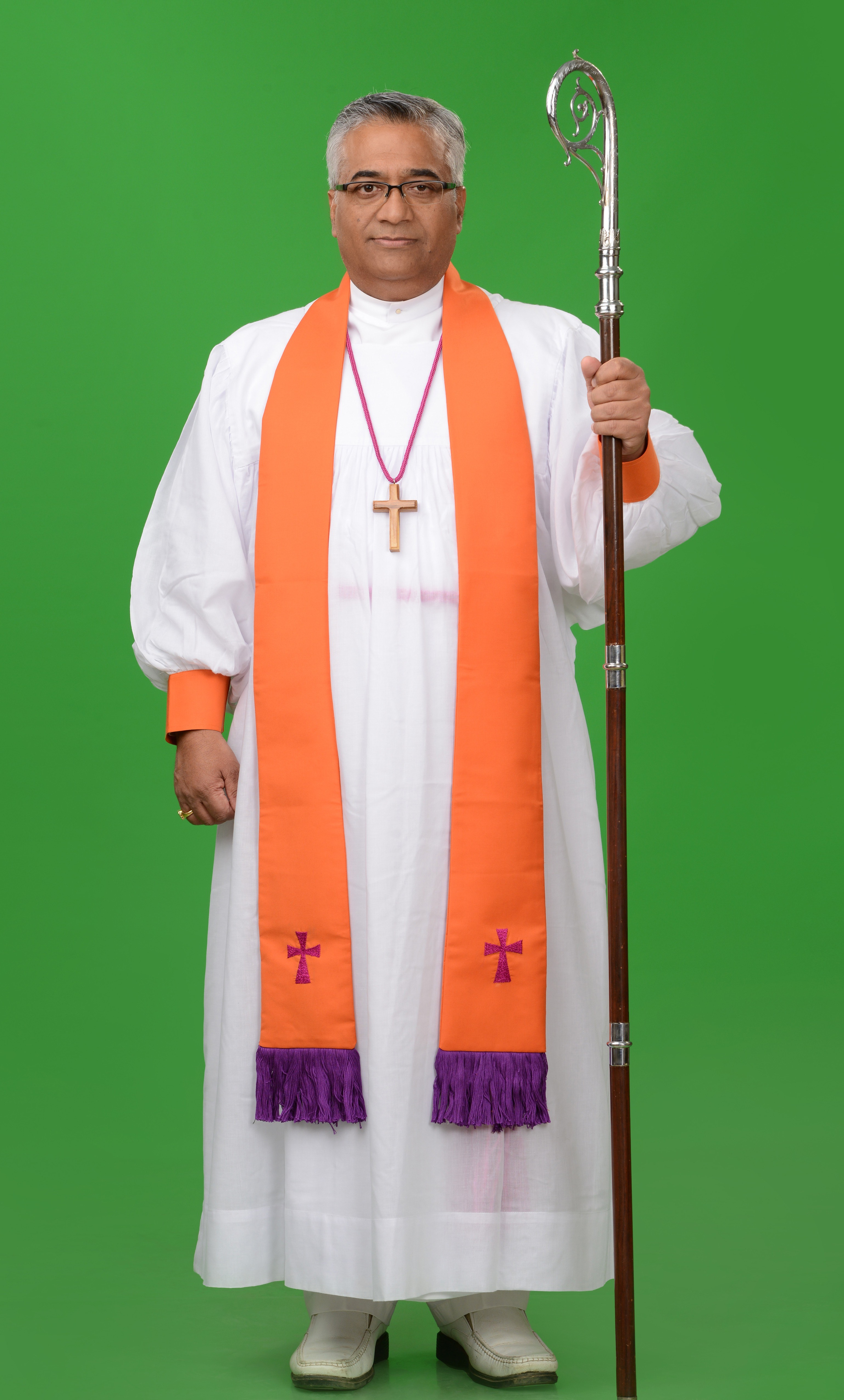 Official Photograph of Bishop